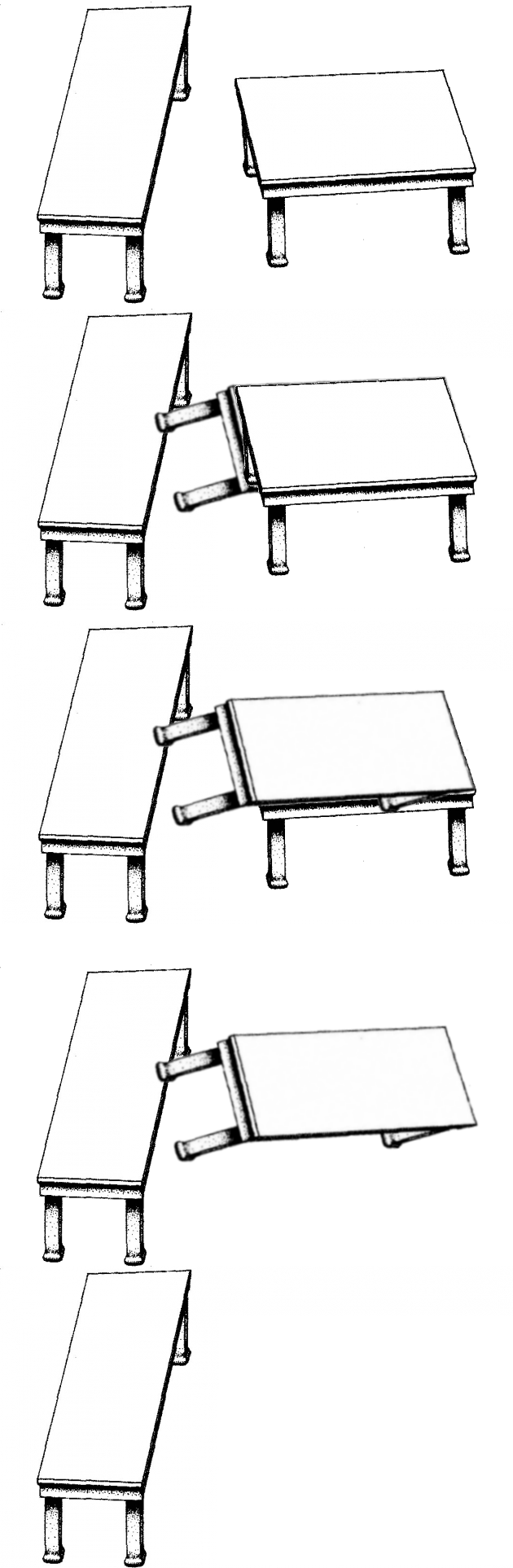 Shepard's tables in various rotations and with embellishments cropped out. The underlying shapes have not been altered